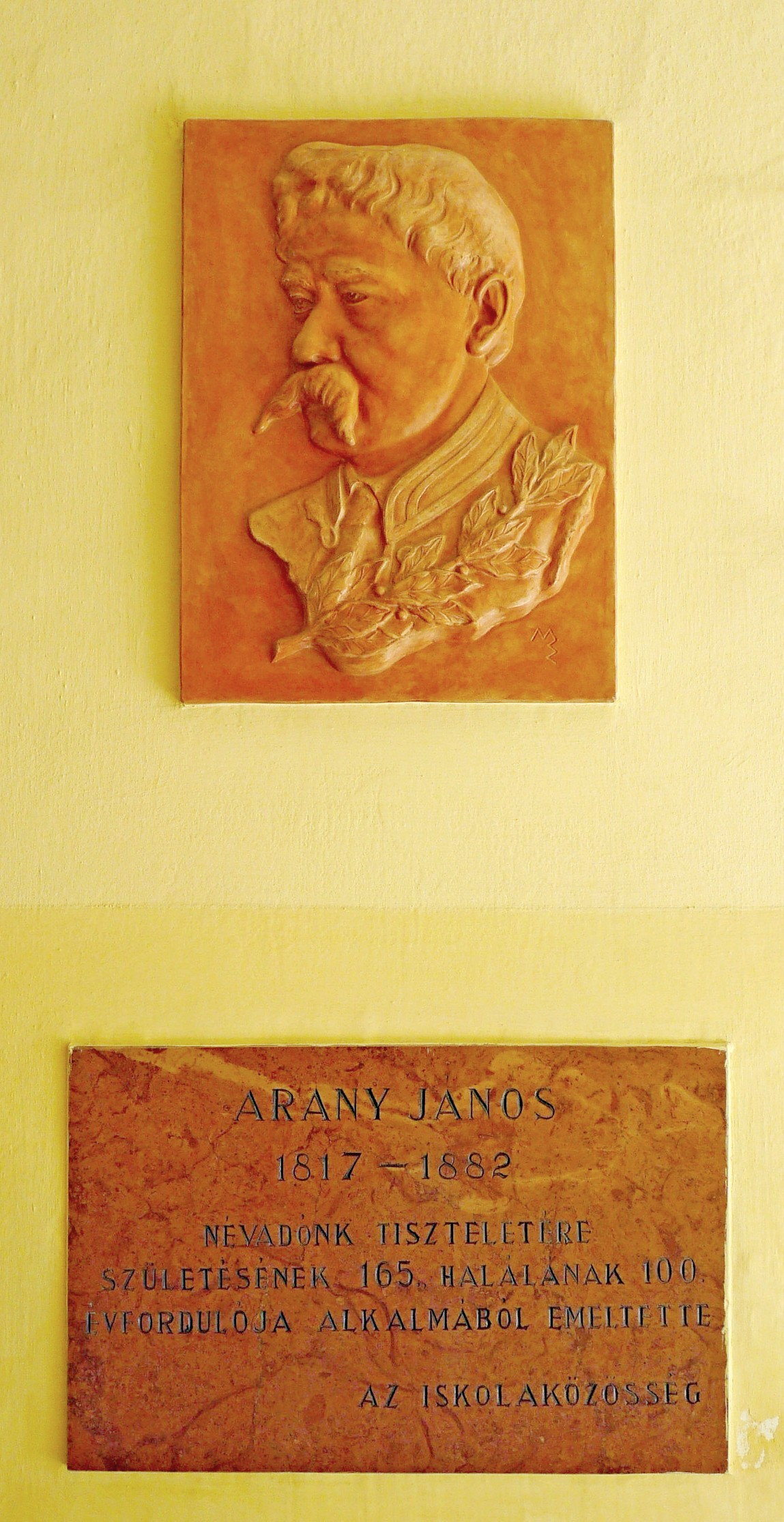 Commemorative plaque to Mr. János Arany (1817–1882) Hungarian journalist, writer, poet, and translator, fixed at the entrance of the primery scool bearing his name. (Nagykőrös, Hősök Square Nr 8)